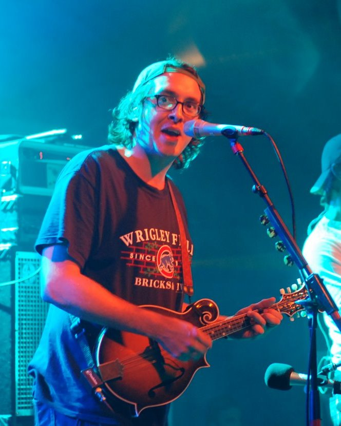 Jeff Austin of Yonder Mountain String Band at High Sierra Music Festival, Quincy, CA, 2007.